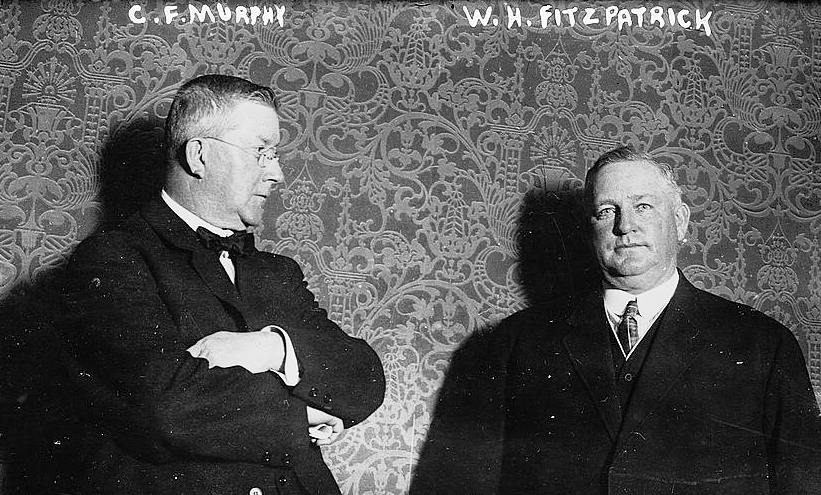 Bain News Service,, publisher. Charles Francis Murphy and William H. Fitzpatrick [between 1910 and 1915] 1 negative : glass ; 5 x 7 in. or smaller. Notes: Title from unverified data provided by the Bain News Service on the negatives or caption cards. Forms part of: George Grantham Bain Collection (Library of Congress). Format: Glass negatives. Repository: Library of Congress, Prints and Photographs Division, Washington, D.C. 20540 USA, General information about the Bain Collection is available at Persistent URL: Call Number: LC-B2- 2453-4